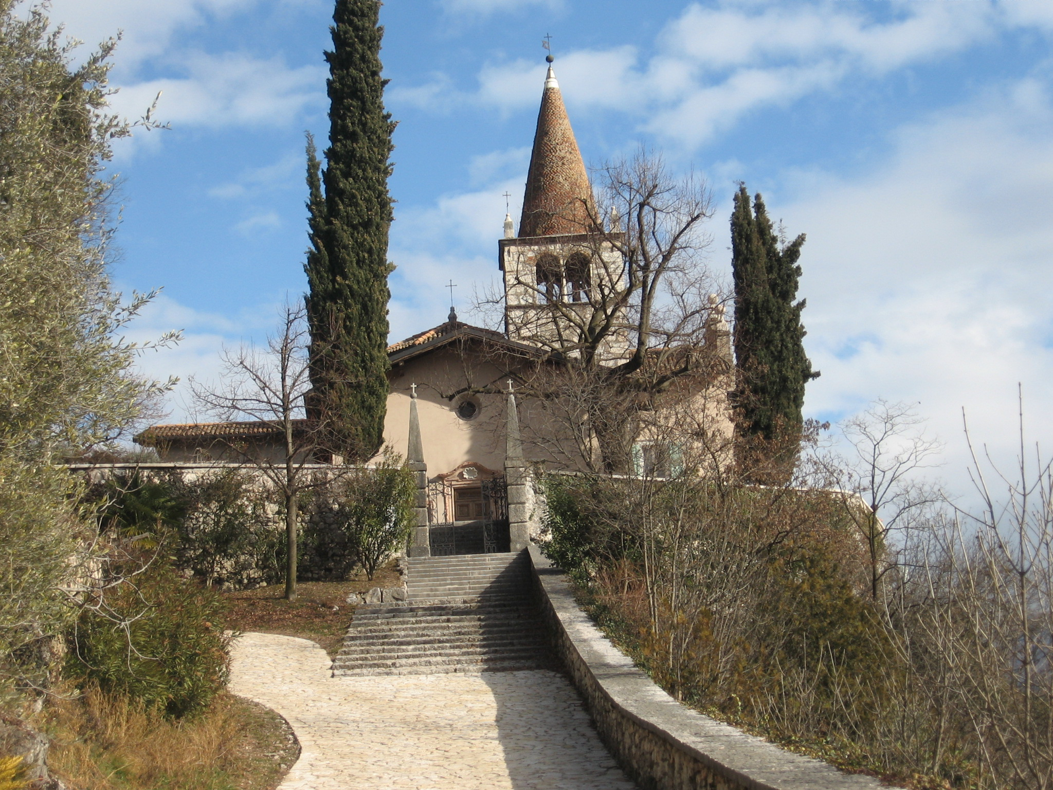 Building of the 16th century: Church of Santa Maria di Montalbano, Trentino Alto Adige, Italy.